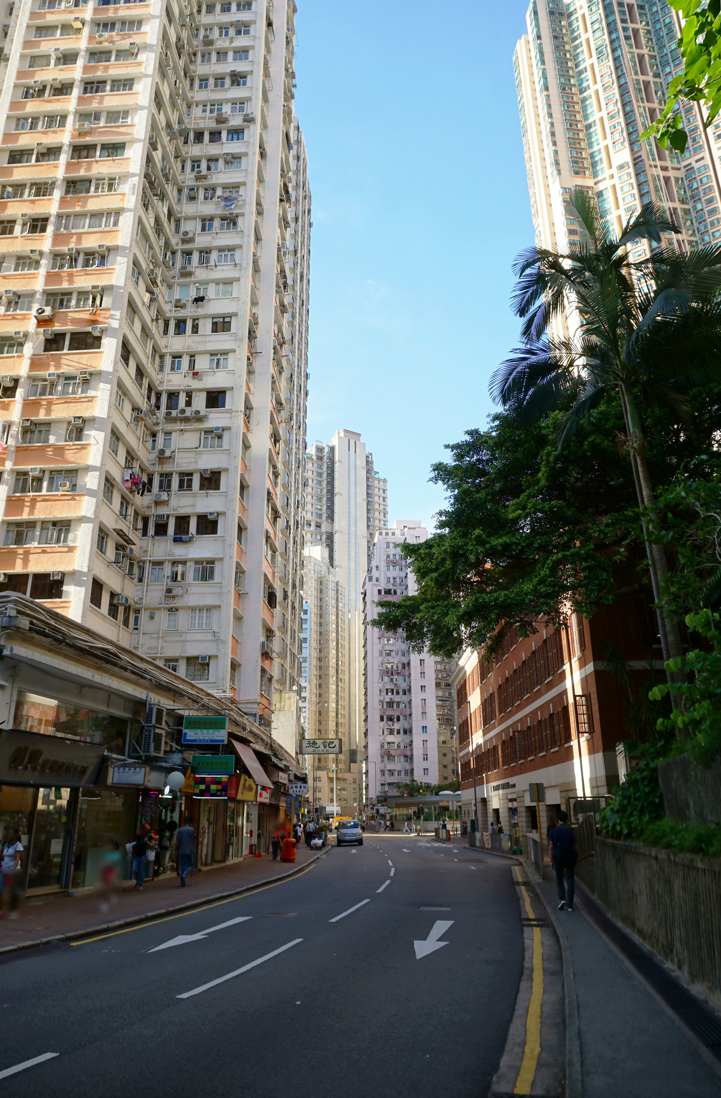 Belcher's Street in Shek Tong Tsui, Hong Kong.